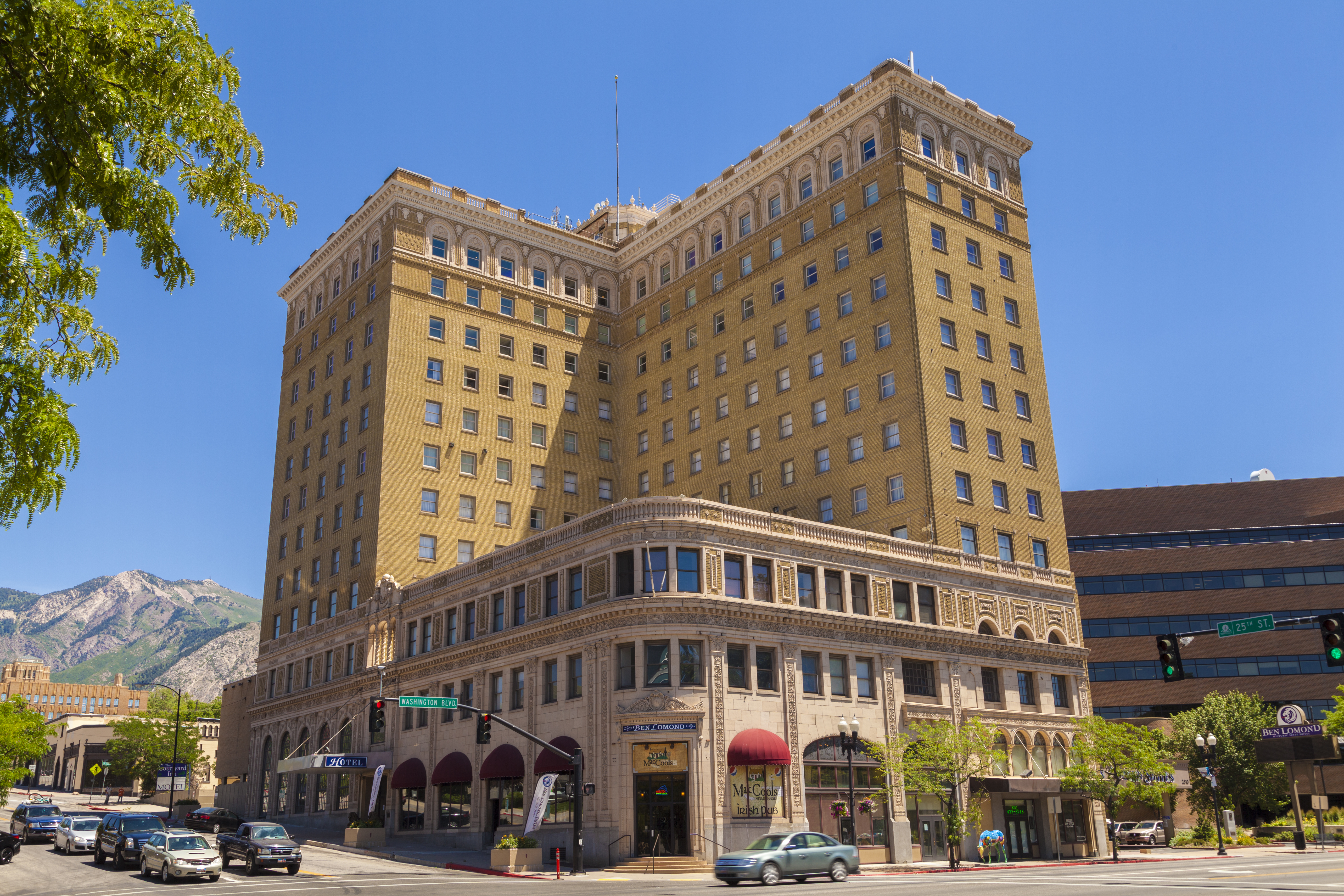 Ben Lomond Suites Historic Hotel in Ogden, Utah, USA. Built in 1927. Example of Italian Renaissance Revival style in Utah. 2510 Washington Blvd Ogden, UT 84401